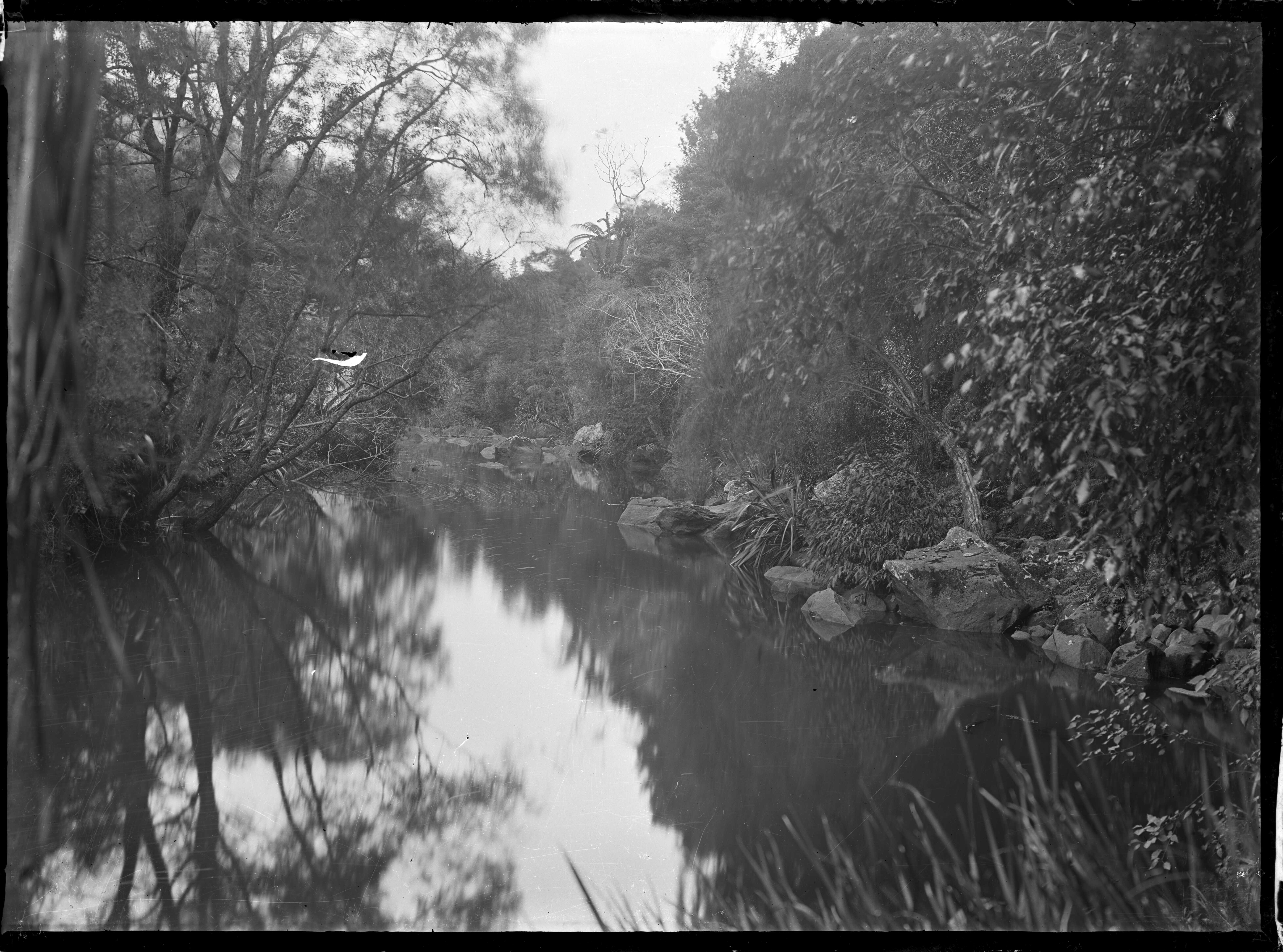 View of Mair Park on the banks of the Hatea River, Whangarei. Photograph taken by Albert Percy Godber in 1923.